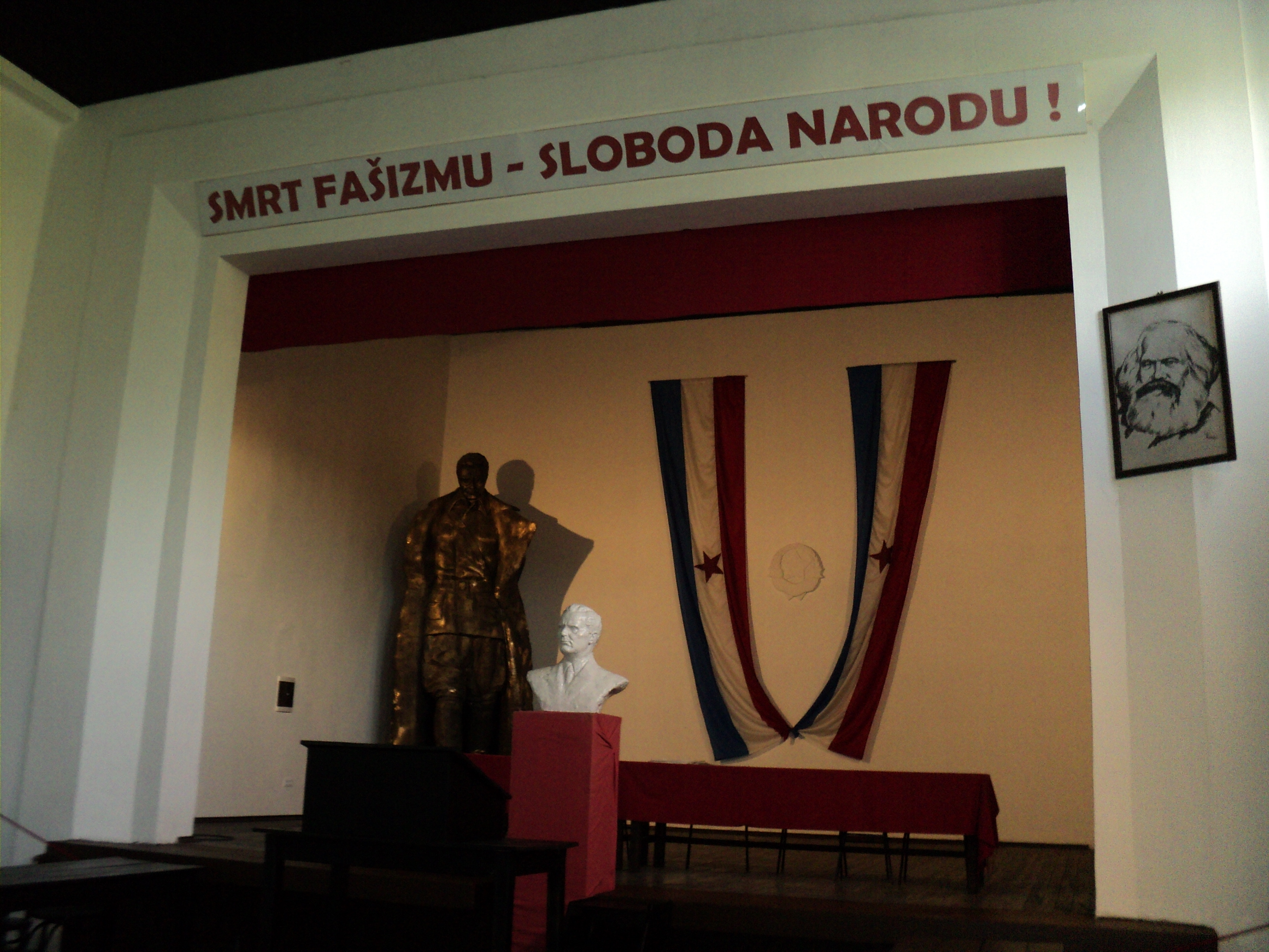 Interior of the AVNOJ Museum in Jajce, Bosnia and Herzegovina.